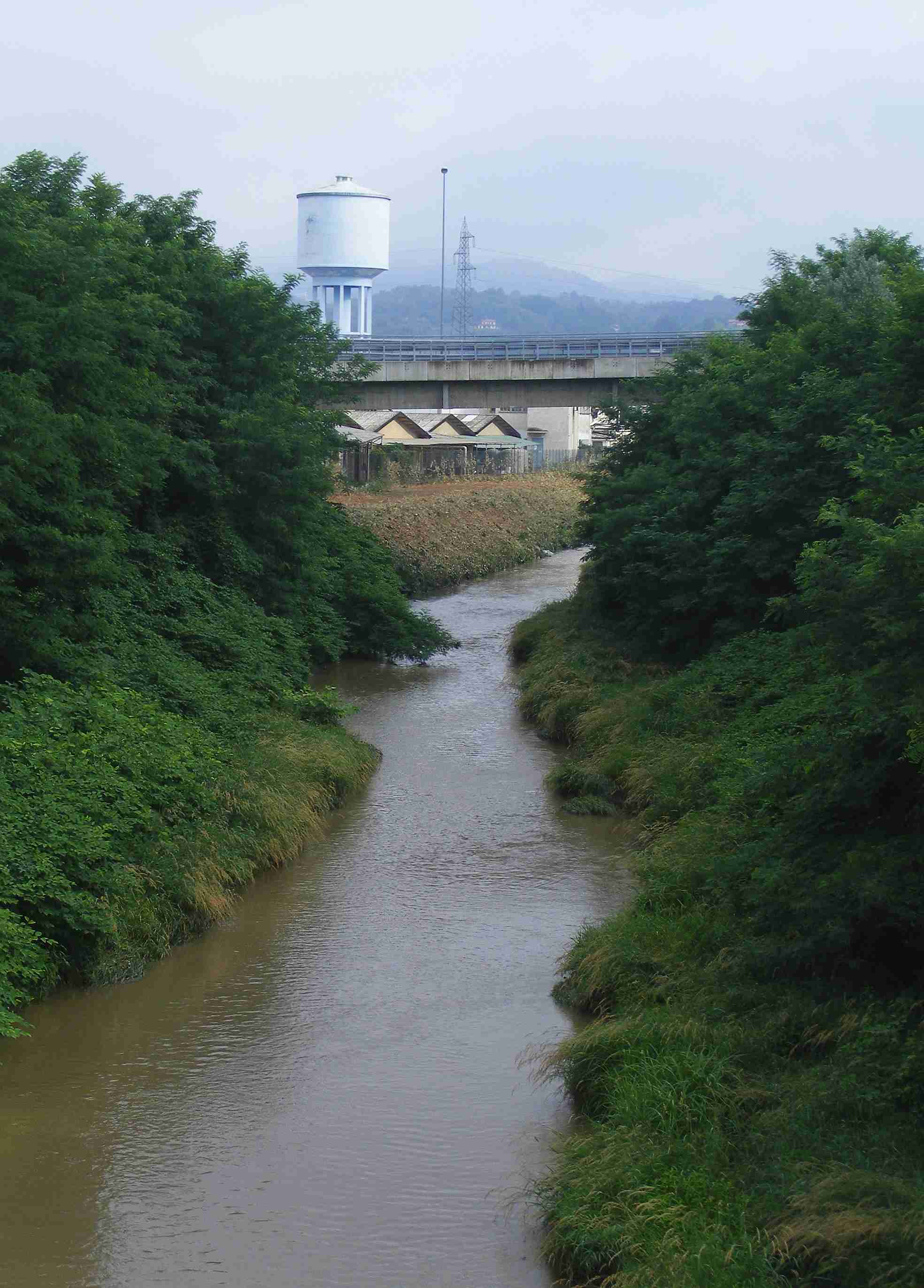 Quargnasca creek between Cossato and Quaregna (BI, Italy)